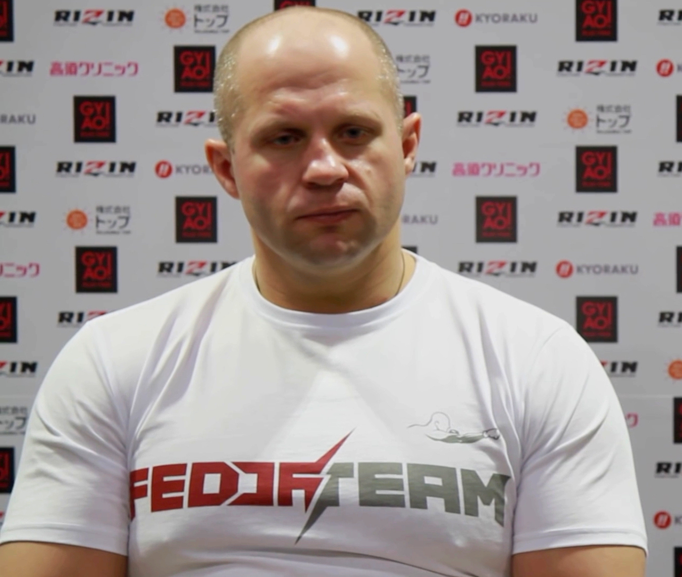 Planeta Octógono - Gazeta Por Bruno Massami